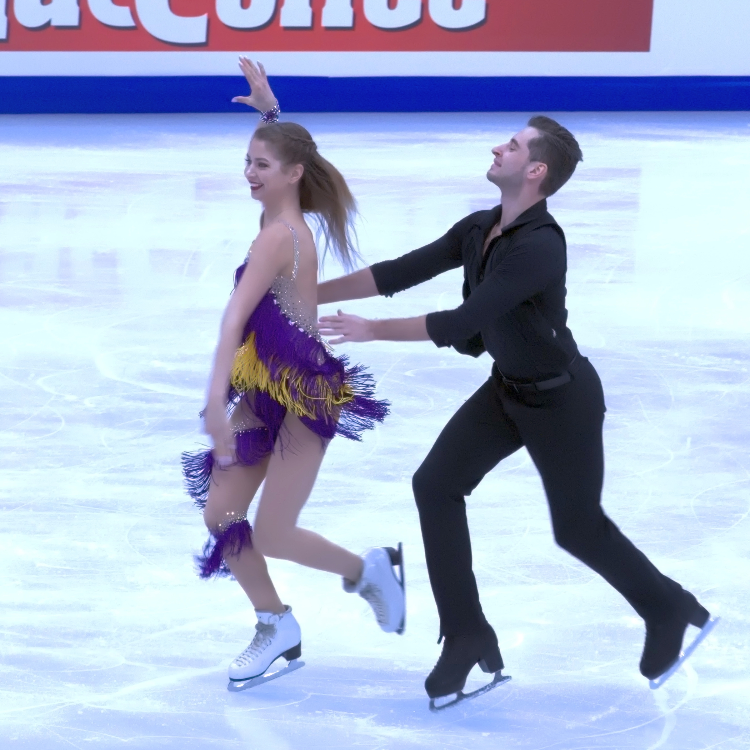 Oleksandra Nazarova & Maksym Nikitin at the 2018 European Figure Skating Championships in Moscow